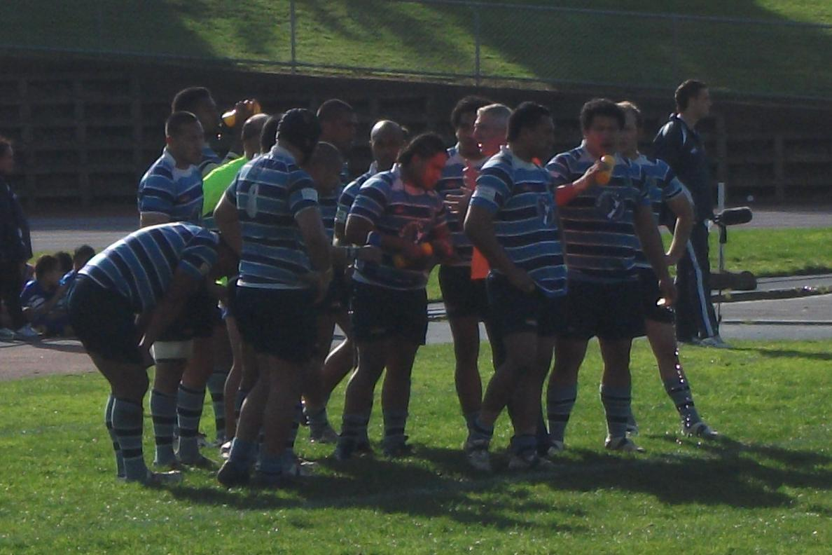 Otahuhu Leopards huddle in their in goal during the final v Mt Albert 28 August 2010